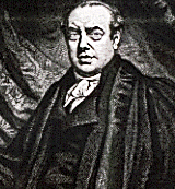 Isaac Milner